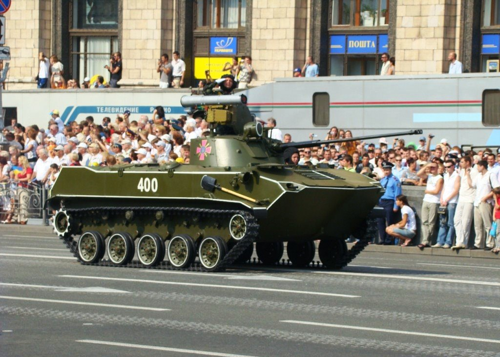 Ukrainian BMD-2 tank during the Independence Day parade in Kiev, Ukraine in 2008.